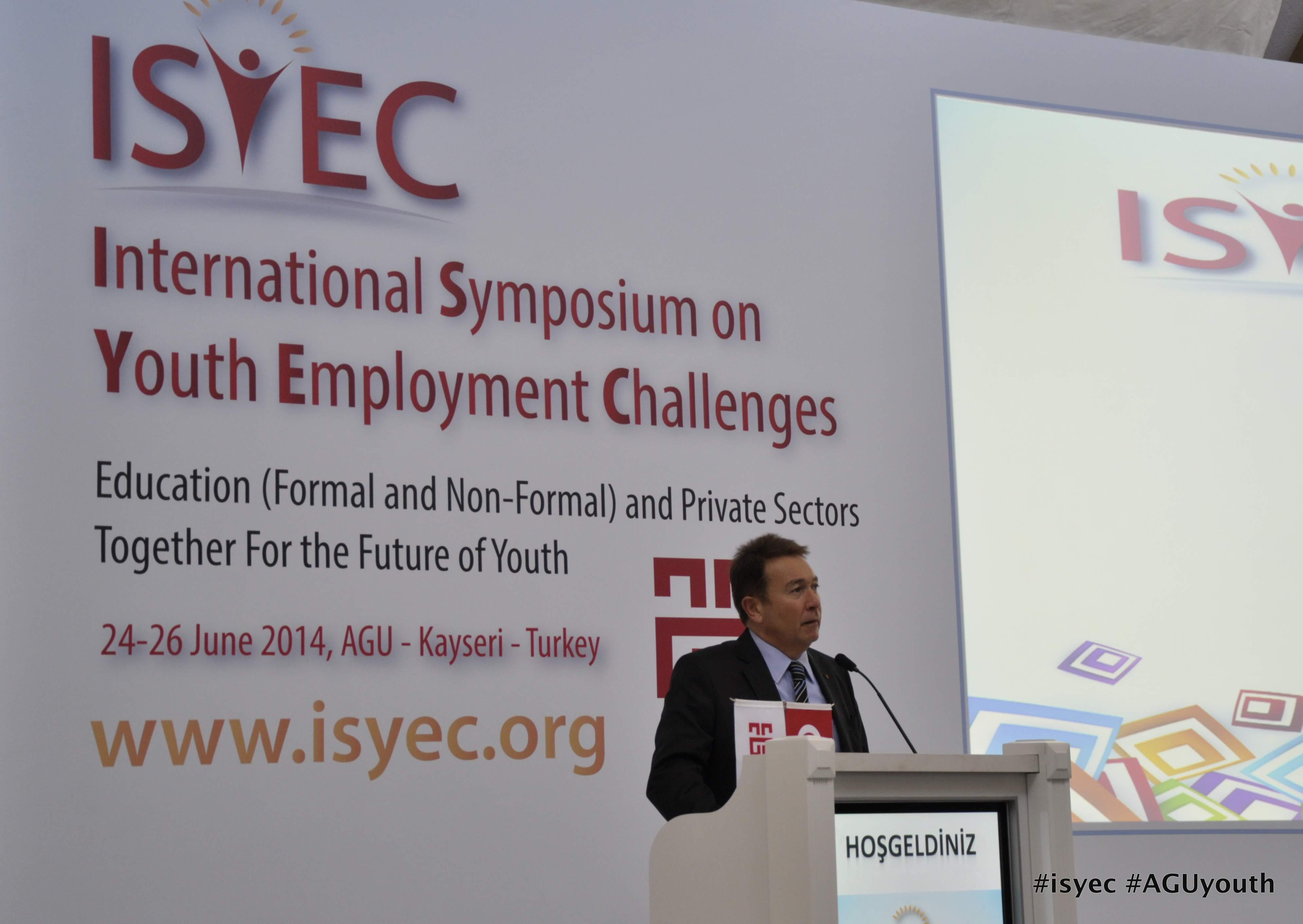 AGU rector's (İhsan Sabuncuoğlu) speech at ISYEC